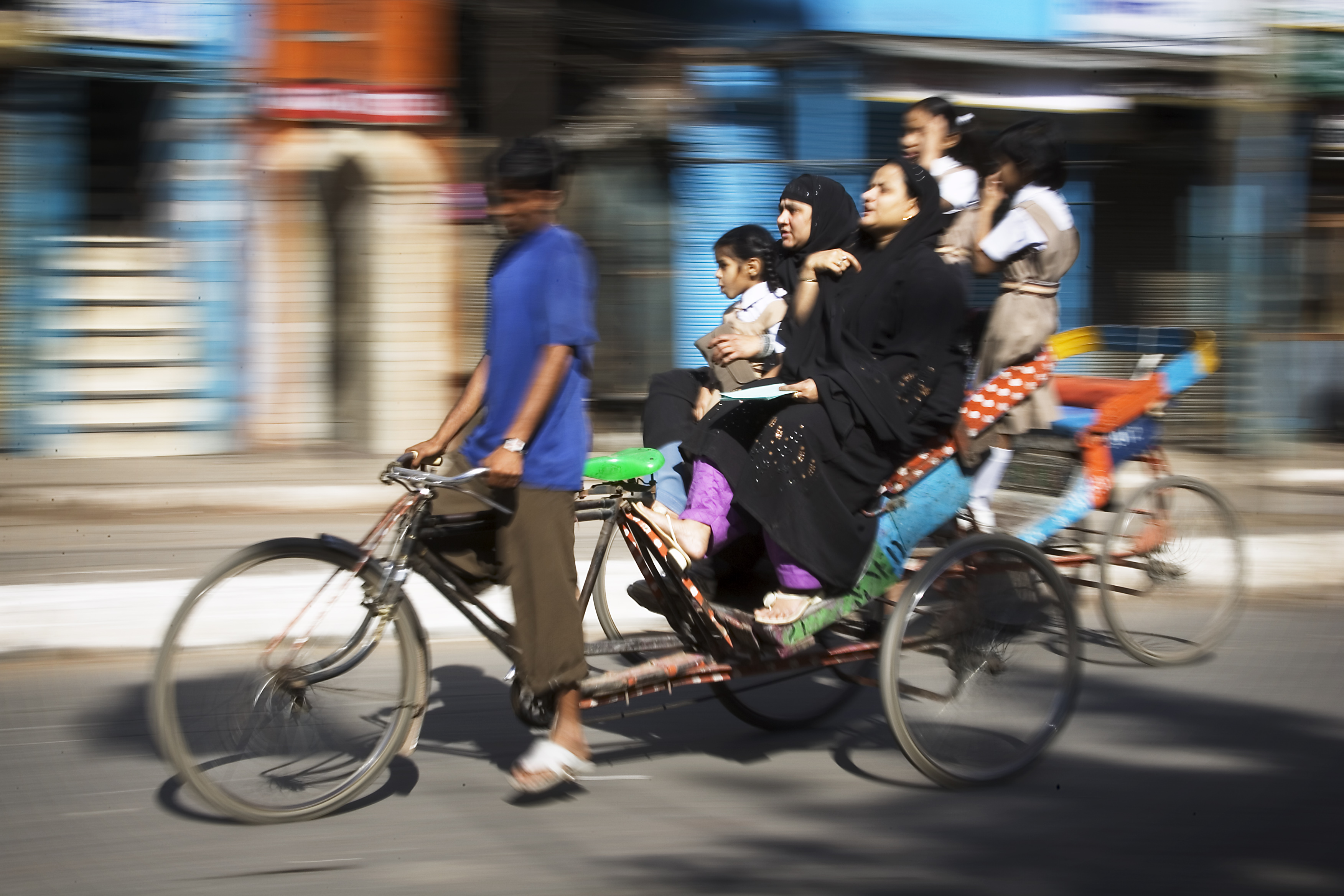 Family going to school in a rickshaw Delhi India